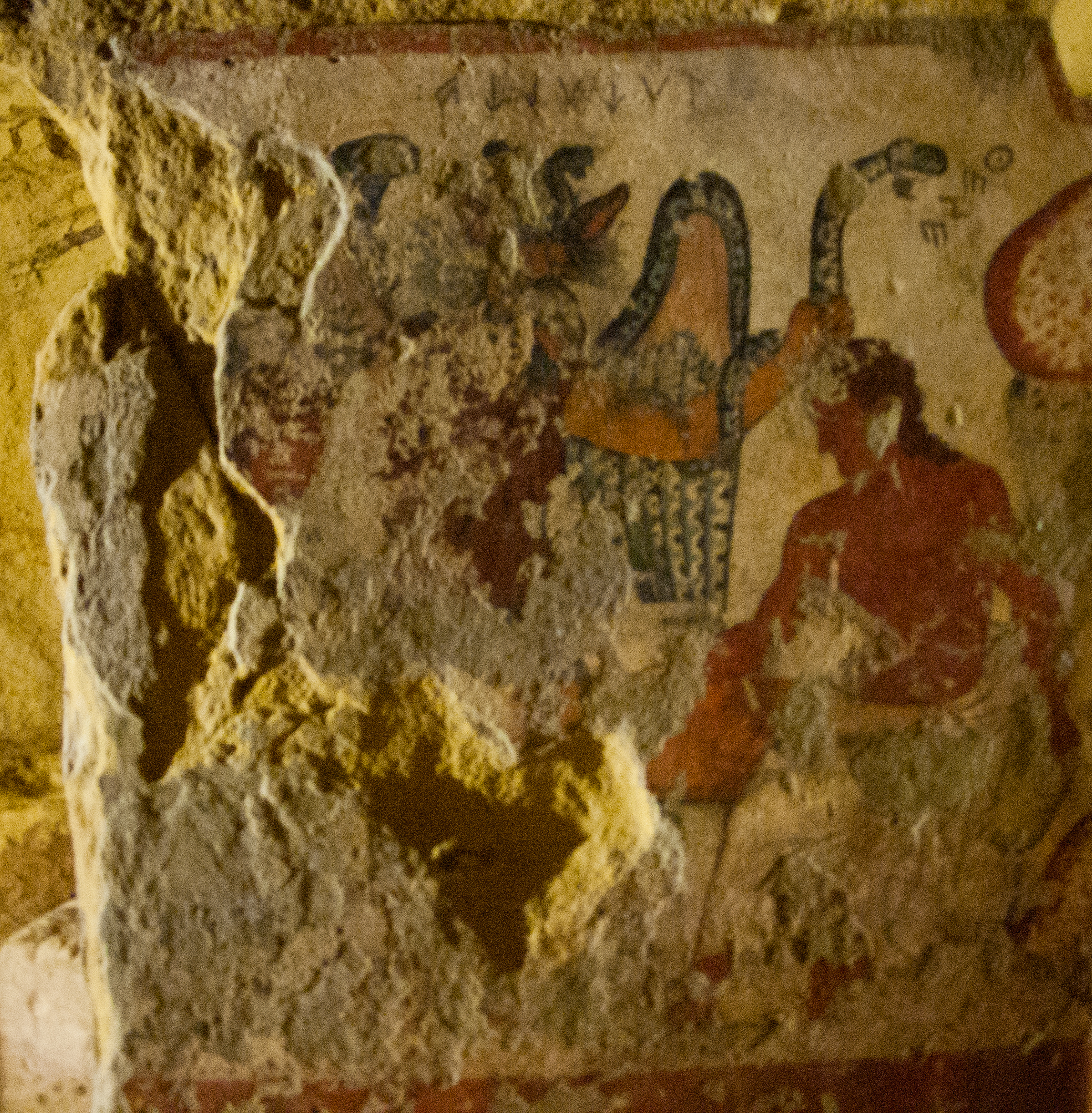 Fresco from the Tomb of Orcus II, Tarquinia, Italy. The daemon Tuχulχa and the hero Θese (Theseus) playing a boardgame.